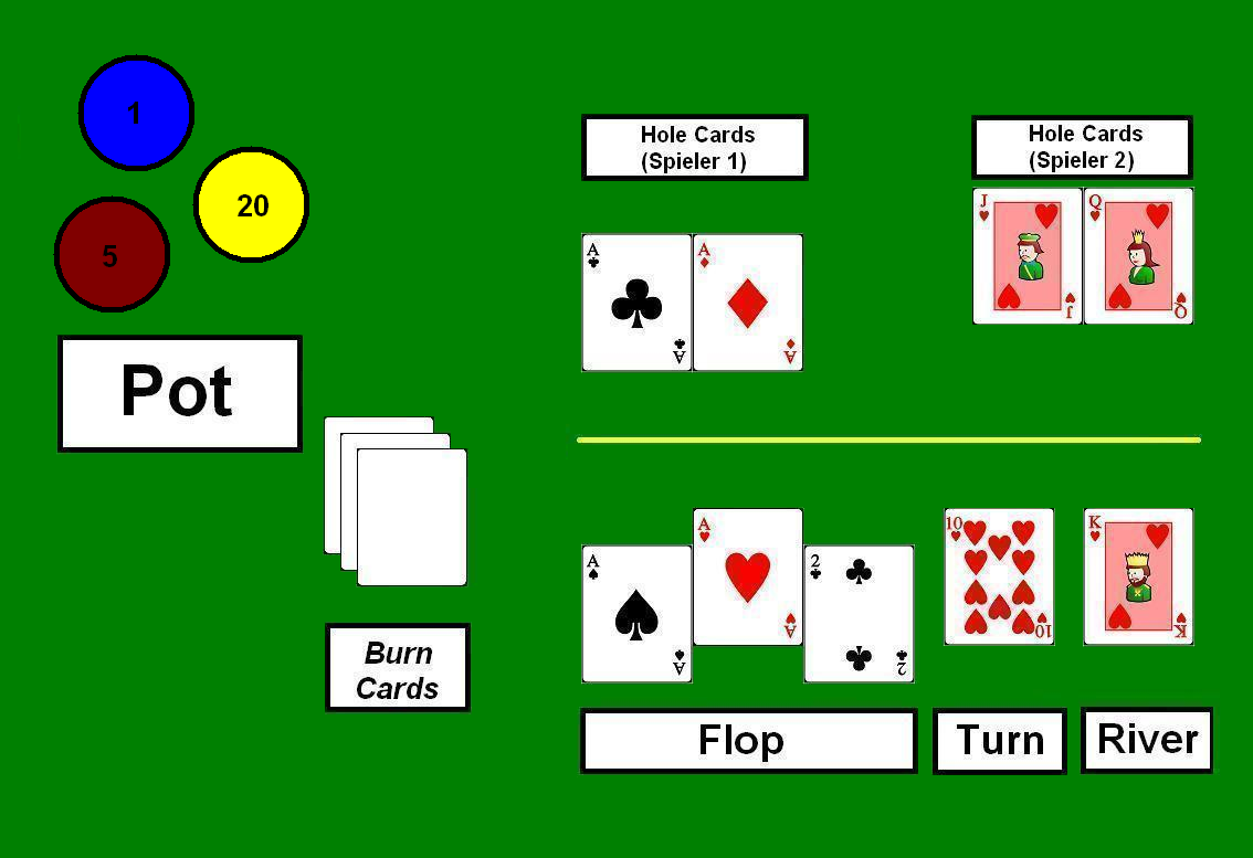 A Show Down on Texas Hold'em